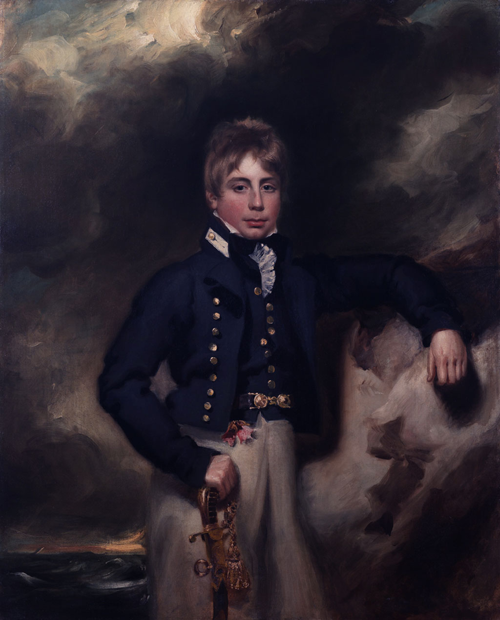 Portrait of Midshipman (later Captain) John Windham Dalling (1 August 1789 – 10 October 1853) of the Royal Navy, one of the younger sons of General Sir John Dalling, 1st Baronet (c. 1731 – 16 January 1798). The portrait commemorated his presence on H.M.S. Defence at the Battle of Trafalgar.